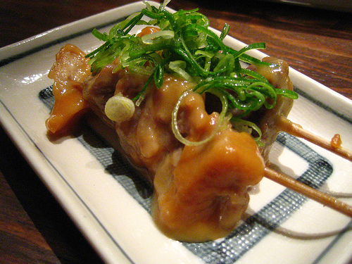 Doteyaki (Japanese:どて焼き). Fibuous beef cooked in Miso paste and Mirin. Osaka Cuisine.